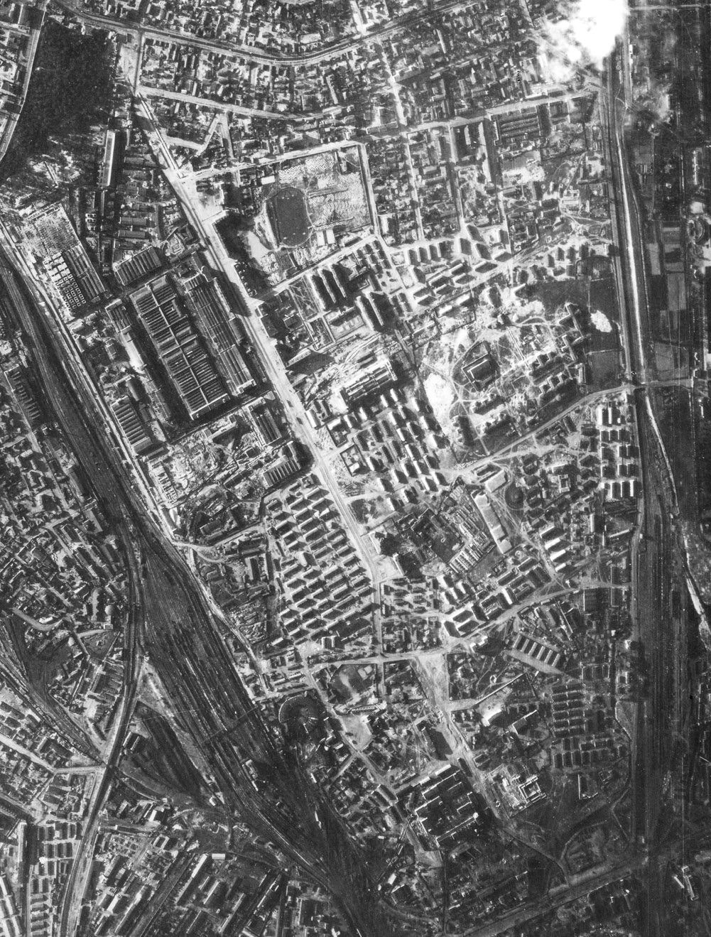 Moscow (Russia) .